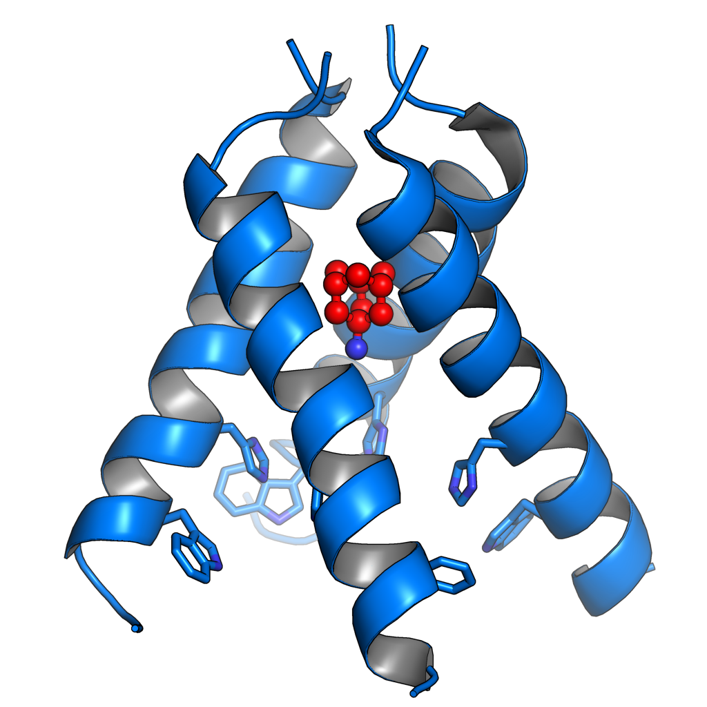 The crystal structure of the transmembrane proton channel domain of the influenza A M2 protein, showing tetrameric arrangement of helices with a channel-blocking drug, amantadine, located in the center (red). The amino acid residues involved in proton transduction are shown as sticks. The image is oriented with the N-terminus at the top; the bottom points toward the interior of the virus. Rendered from PDB ID 3C9J, published in: Jessica L. Thomaston, Mercedes Alfonso-Prieto, Rahel A. Woldeyes, James S. Fraser, Michael L. Klein, Giacomo Fiorin, and William F. DeGrado. (2015) High-resolution structures of the M2 channel from influenza A virus reveal dynamic pathways for proton stabilization and transduction. Proc Natl Acad Sci 112(46): 14260–14265. URL